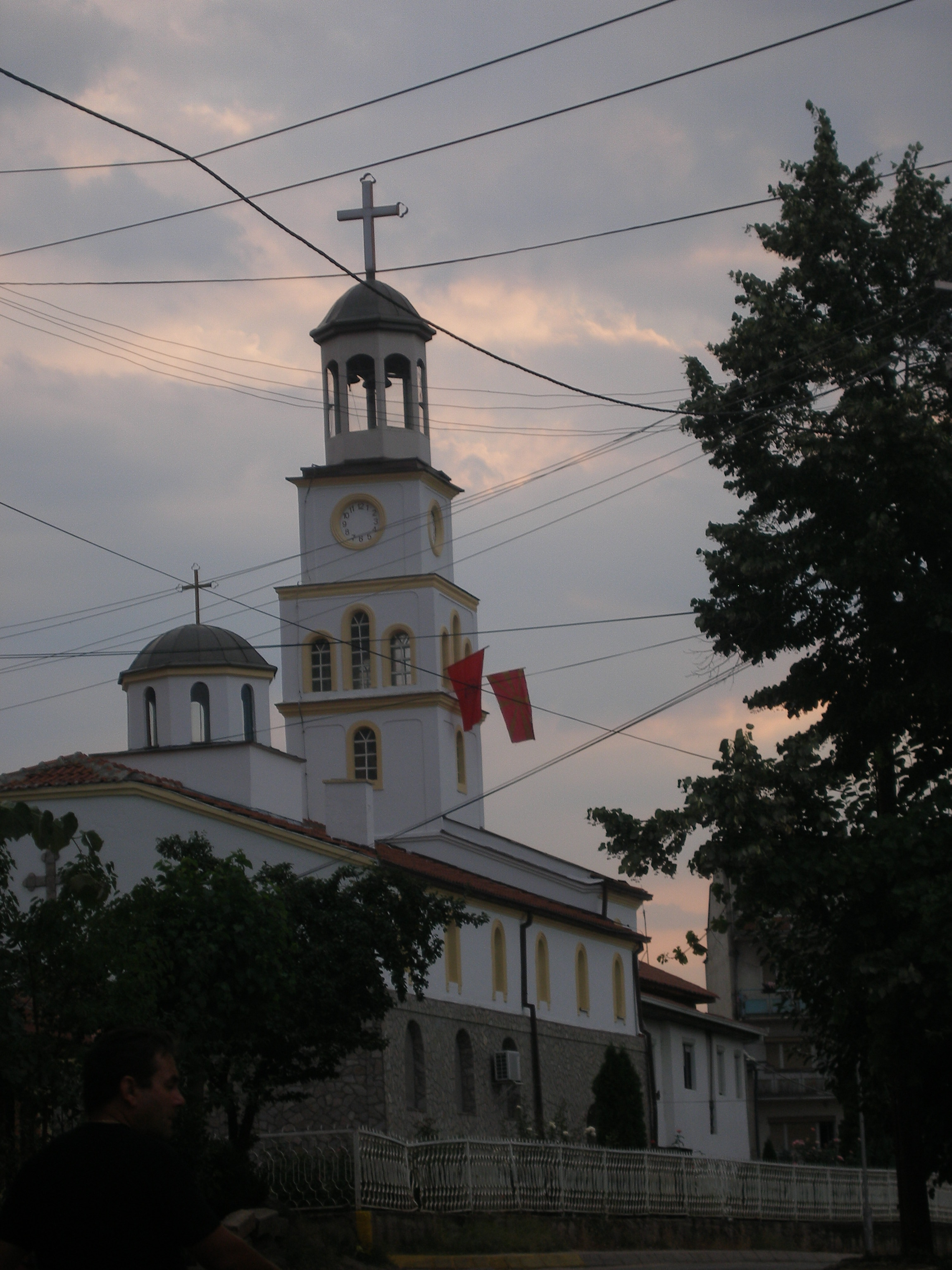 Town church of St.Arhangel Michail in Vinica